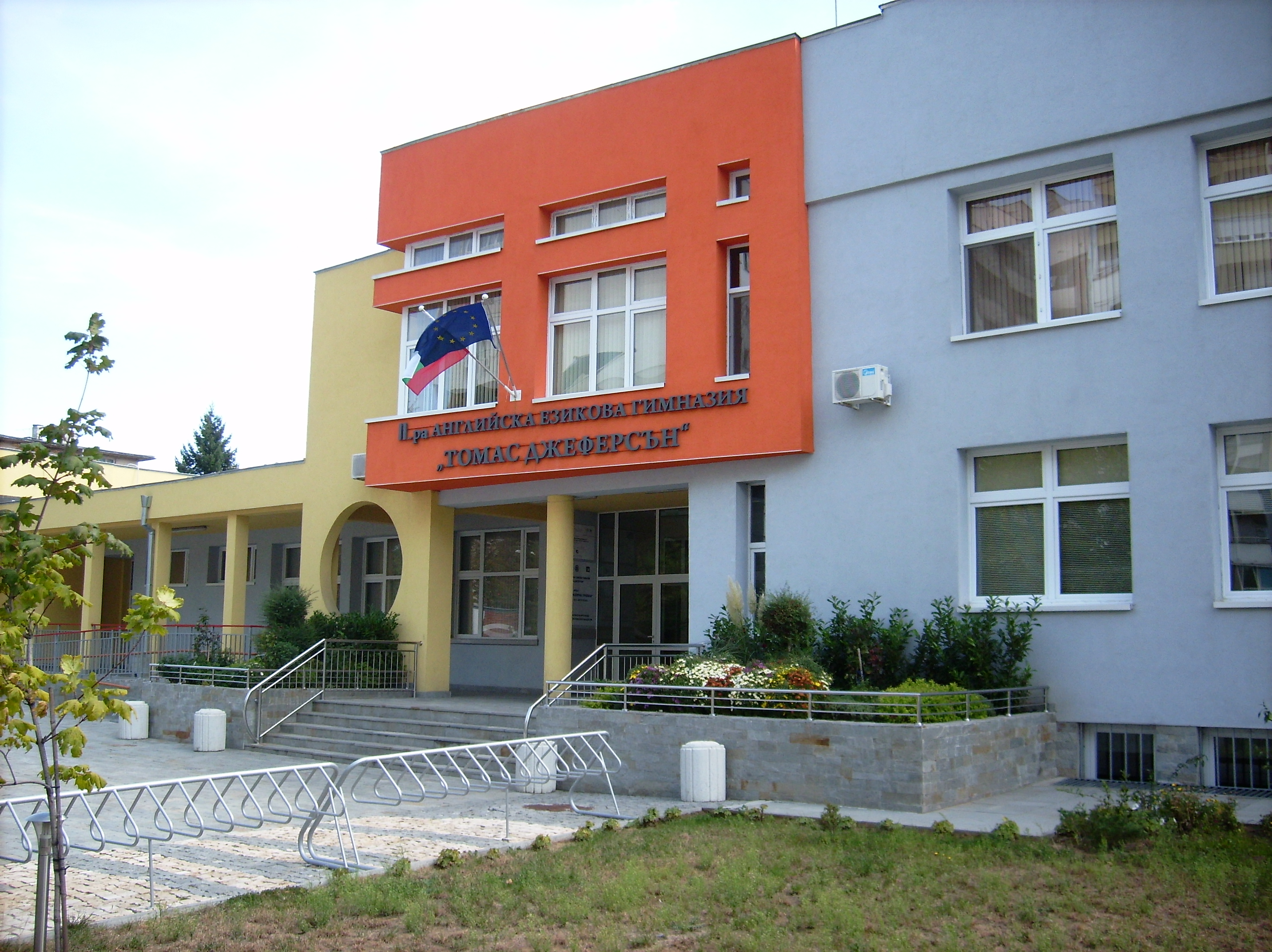 The entrance of the high school named after Thomas Jefferson in Sofia, Bulgaria